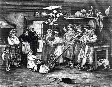 «Kurek wielkanocny». Polish Easter folk rite.